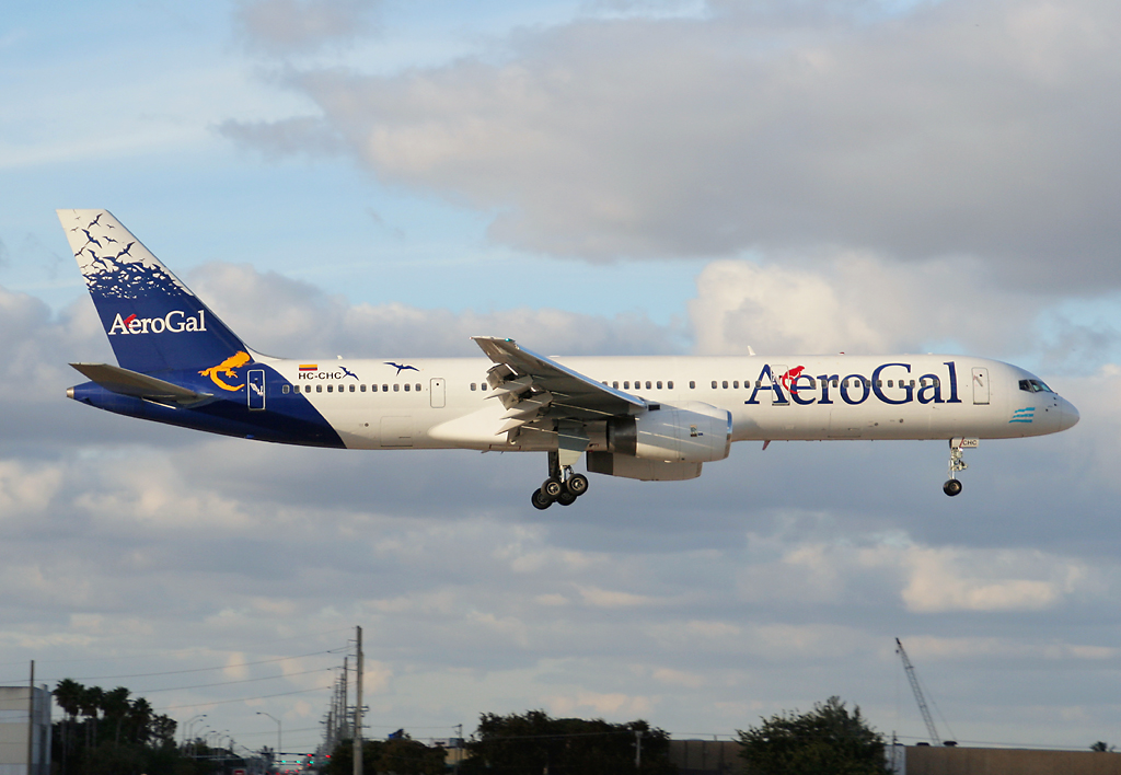 Aerogal Boeing 757-200 arrives at Miami International Airport